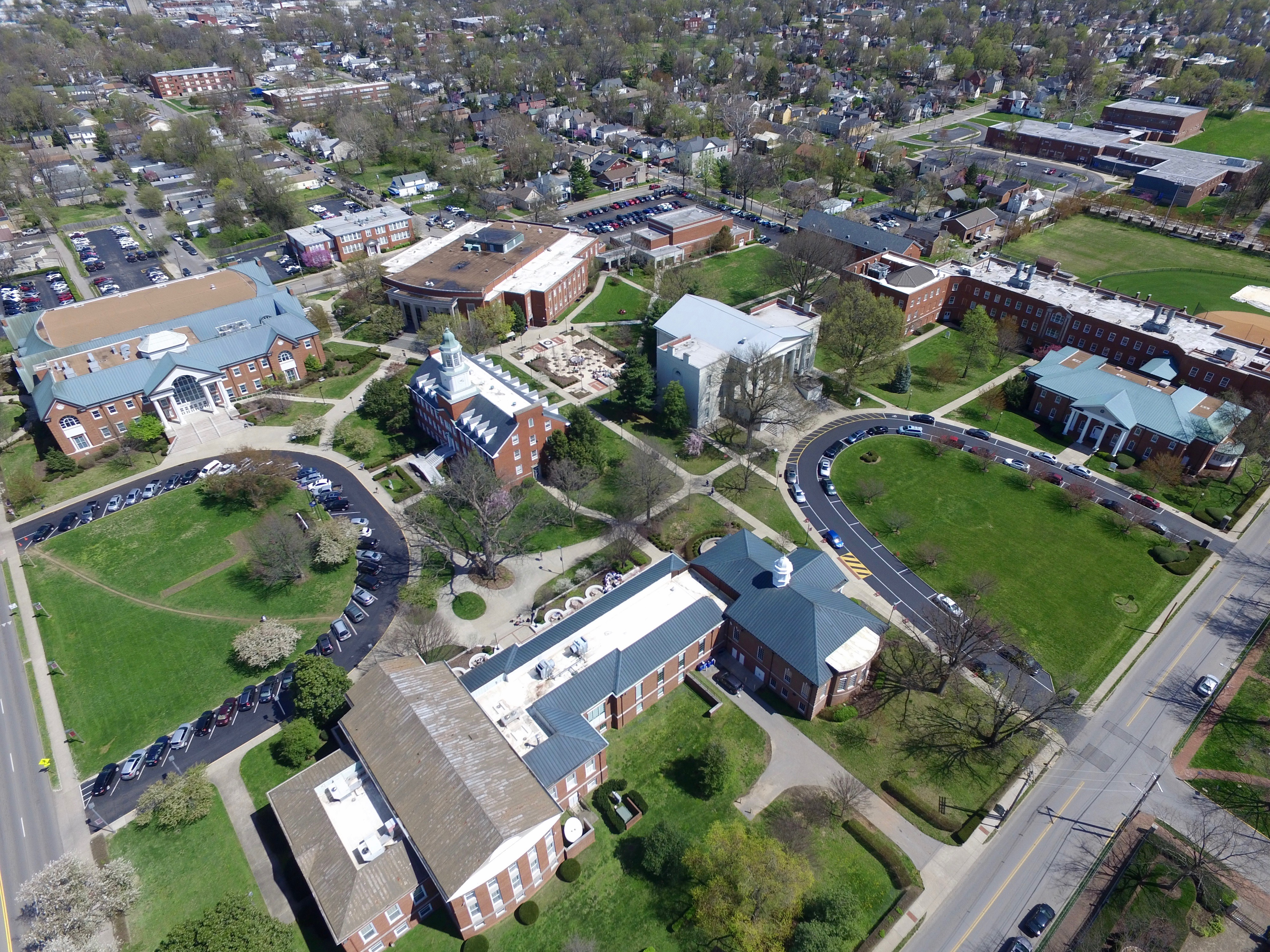 Drone photo from April 1 2016